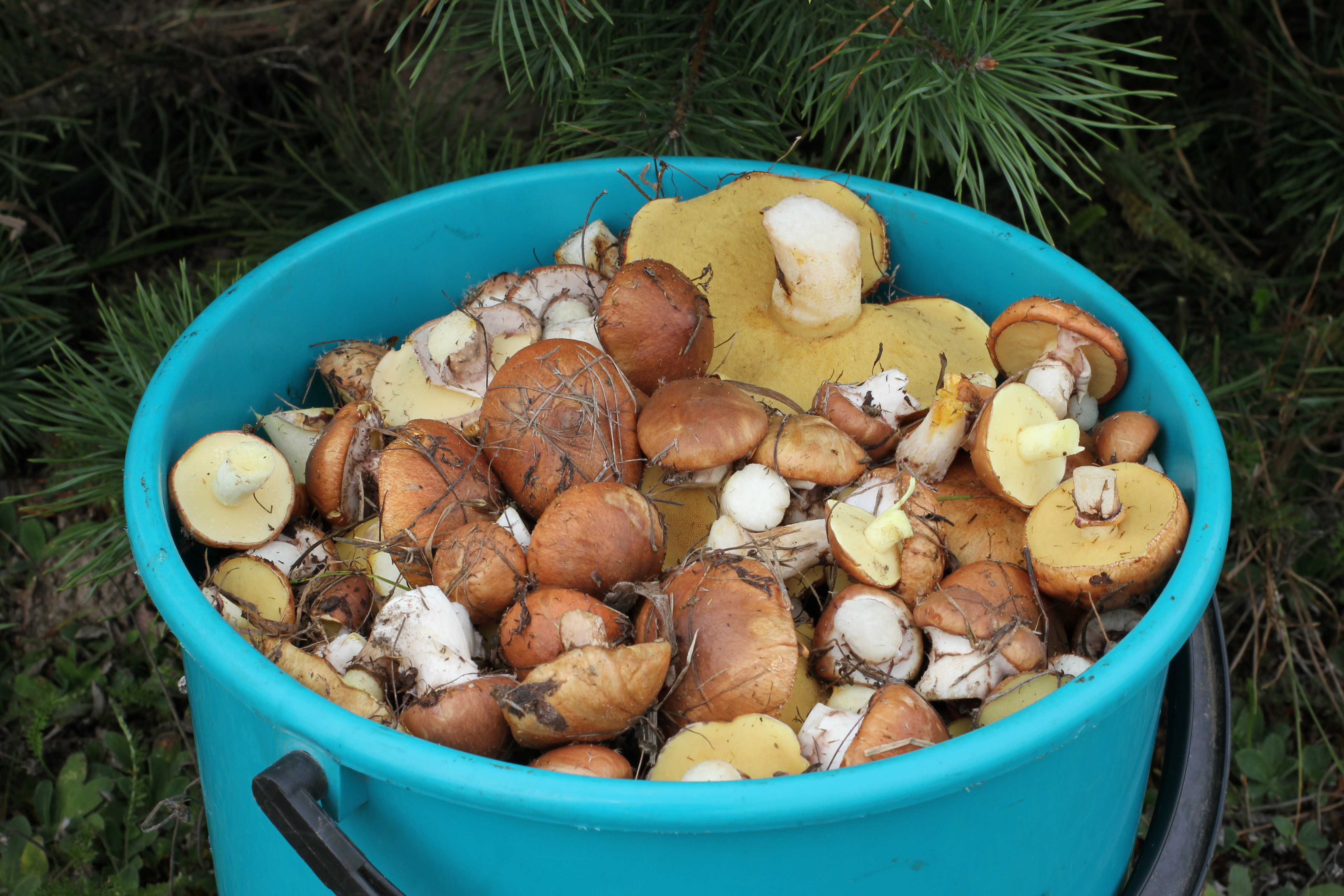 Slippery Jack mushrooms (Suillus luteus). Picked edible fungi in bucket. Trophies of a mushroom hunt. Ukraine.